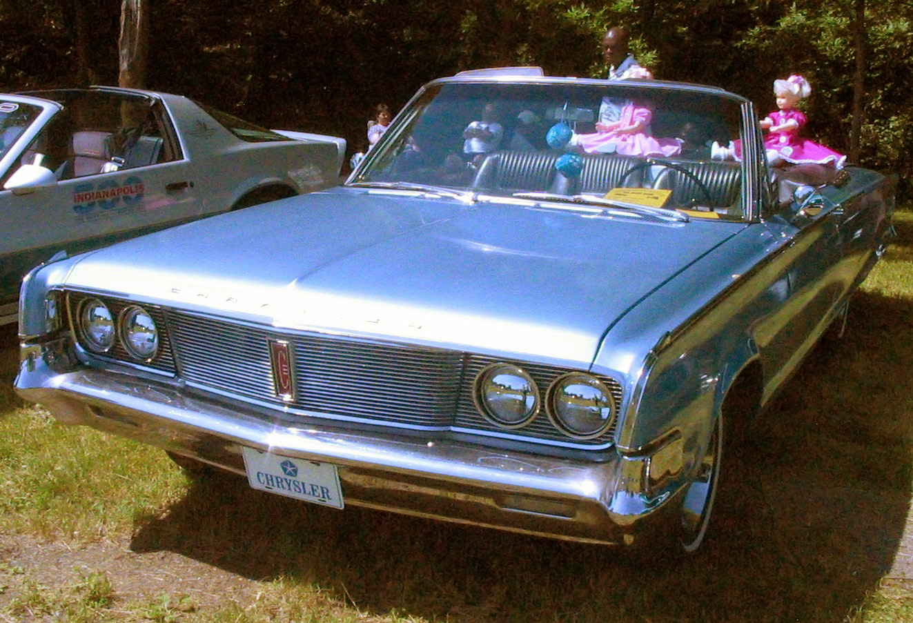 1965 Chrysler Newport Convertible photographed in Laval, Quebec, Canada at the Auto classique Laval.